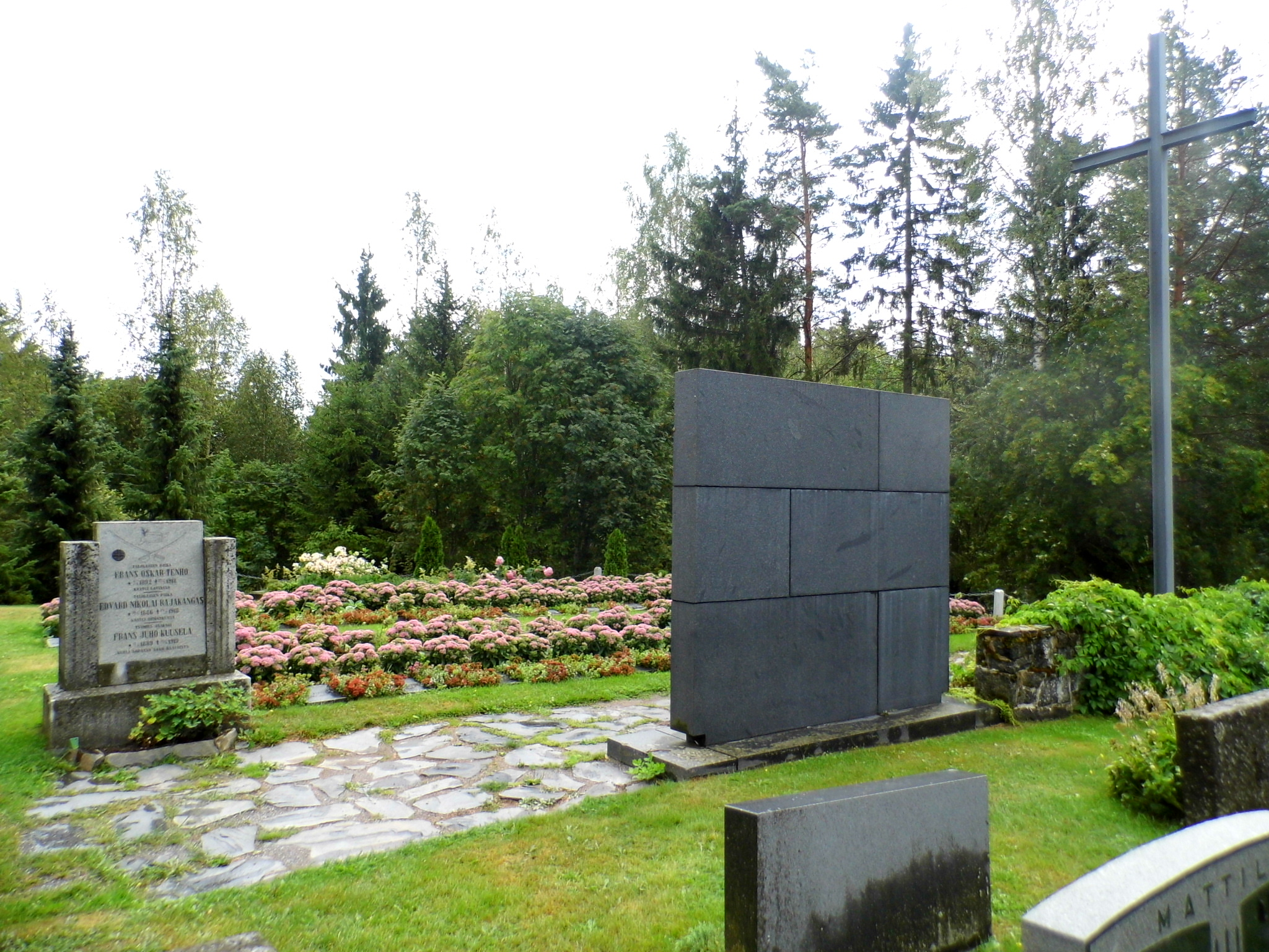 Military cemetary at church in Lassila, Finland